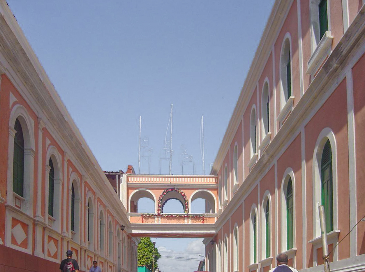 colonial style in Ciudad Bolivar downtown, Venezuela